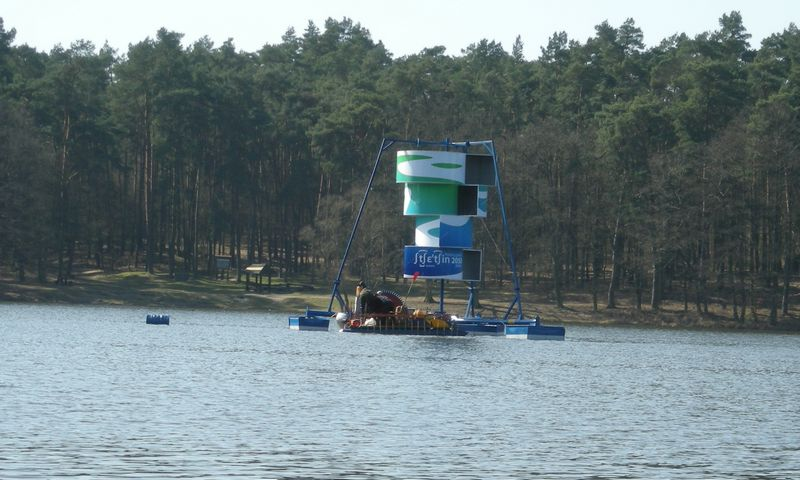 The hypolimnion aerator used in the reclamation of Głębokie Lake in Szczecin, Poland